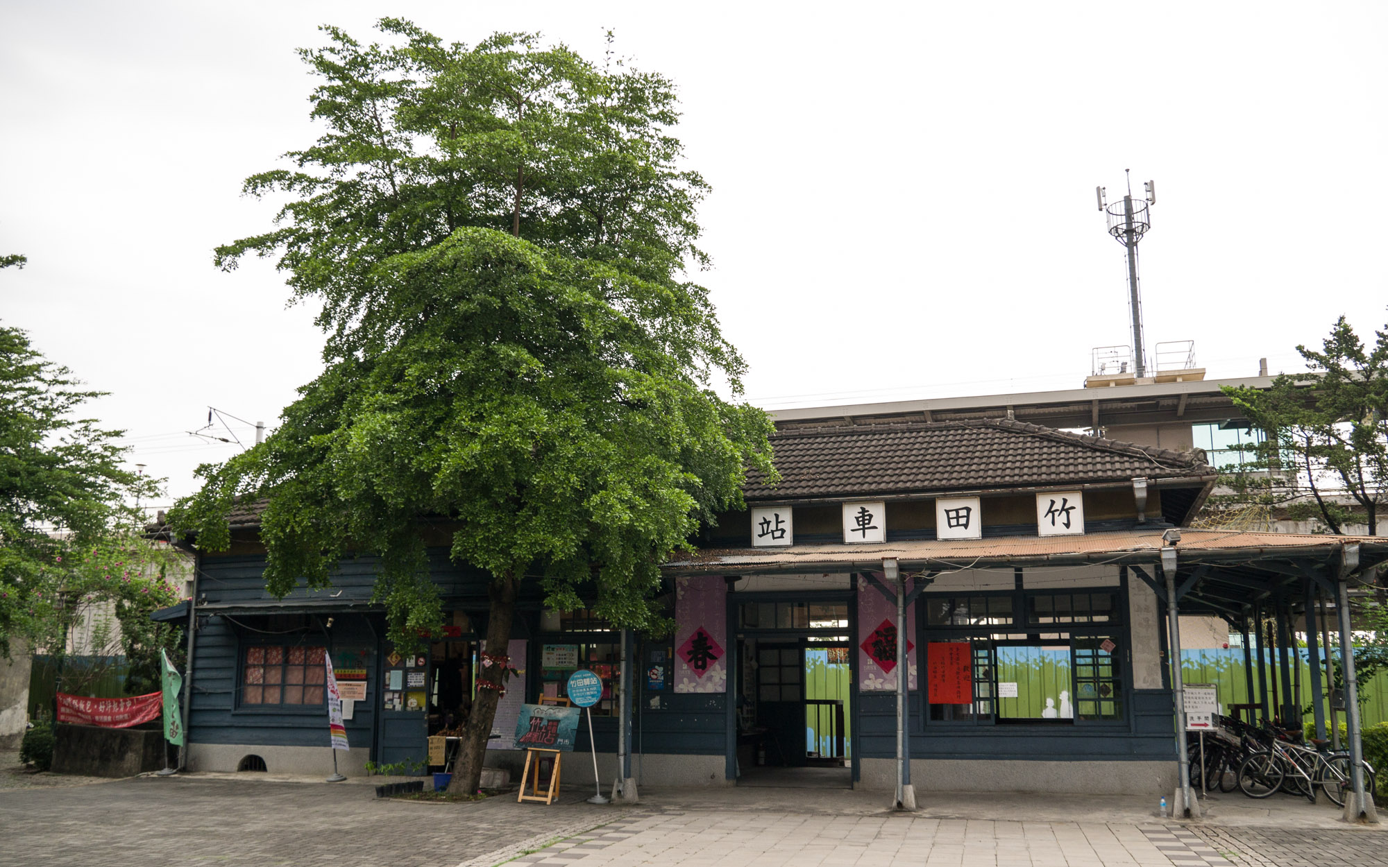 竹田車站 TRA Jhutian Station